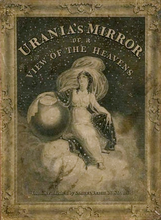 Box lid for Urania's Mirror, a set of celestial cards accompanied by A familiar treatise on astronomy ... by Jehoshaphat Aspin.